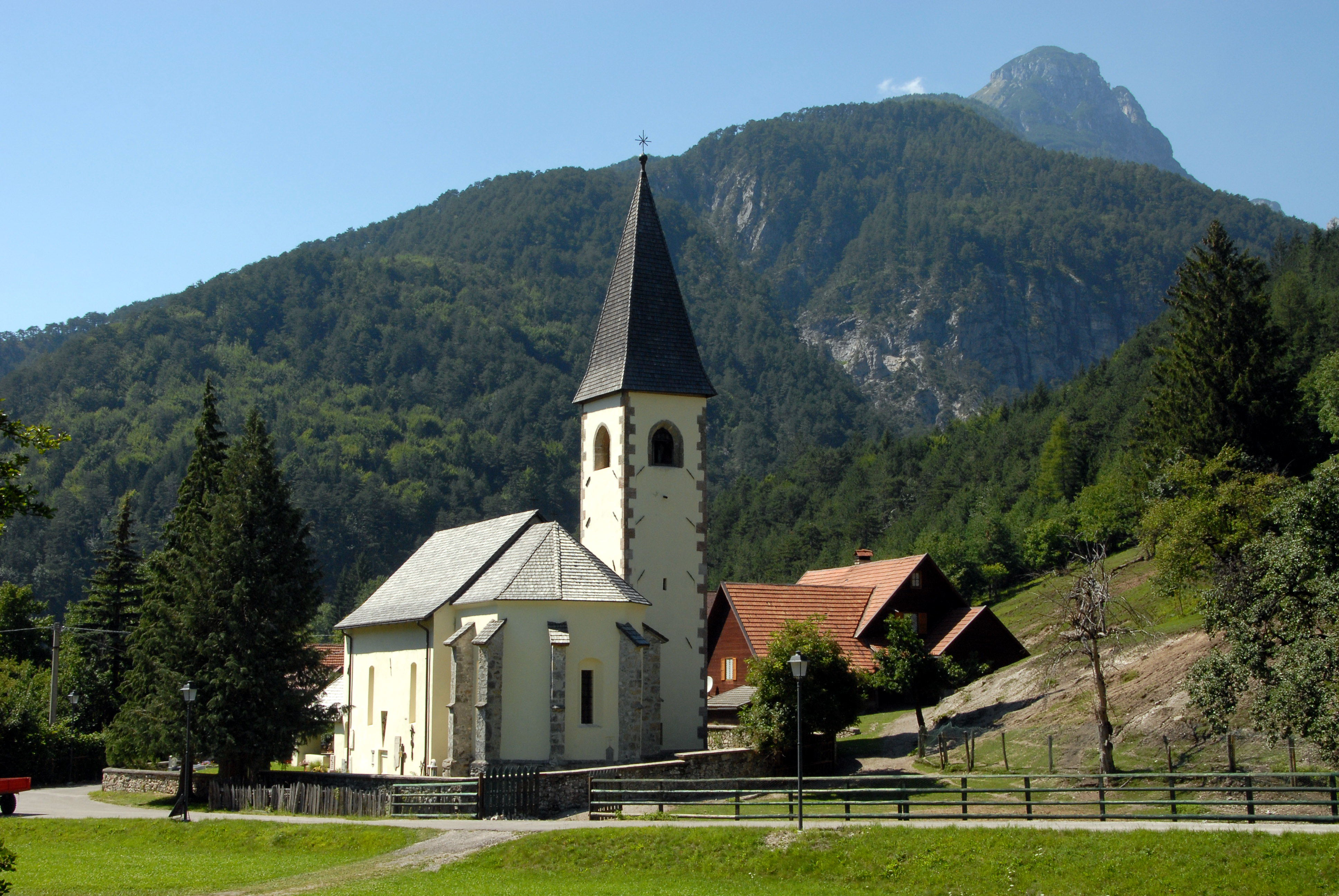 Santa Caterina in the community of Malborghetto in the Val Canale / Friuli-Venezia Giulia / Italy / EU.